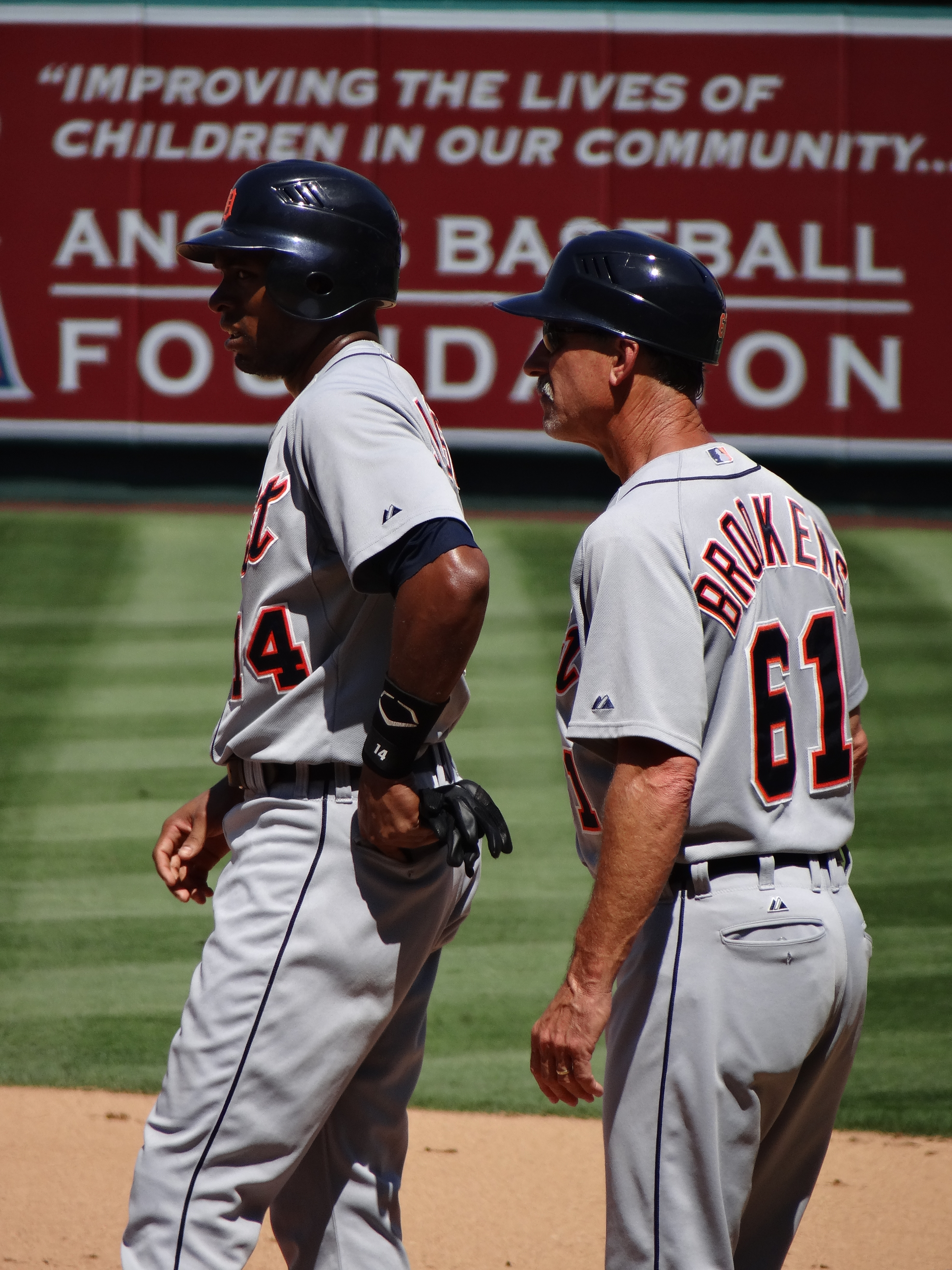 Detroit Tigers center fielder Austin Jackson and first base coach Tom Brookens in Anaheim